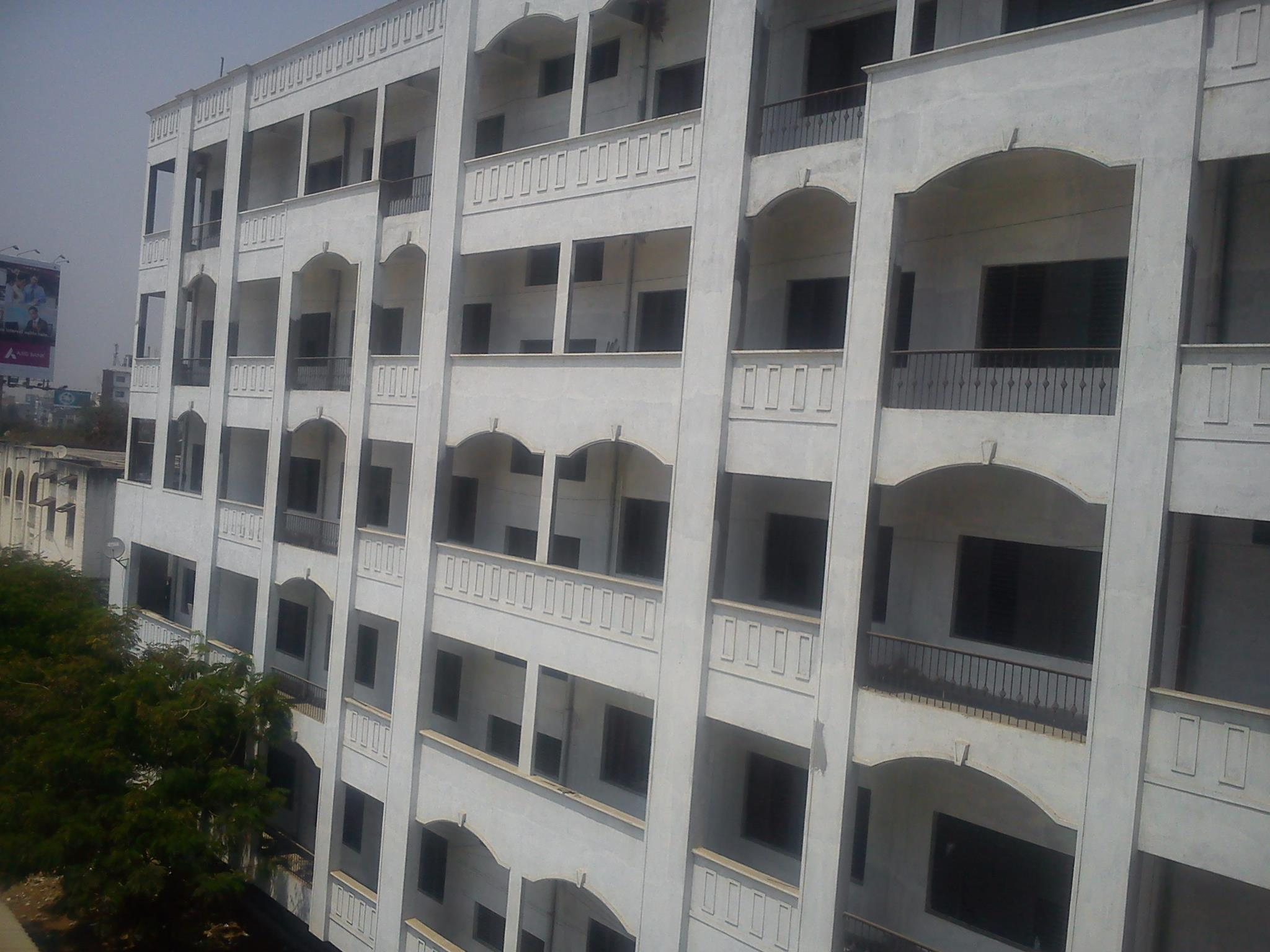 This photo has taken from S.V.I.T. Old Building